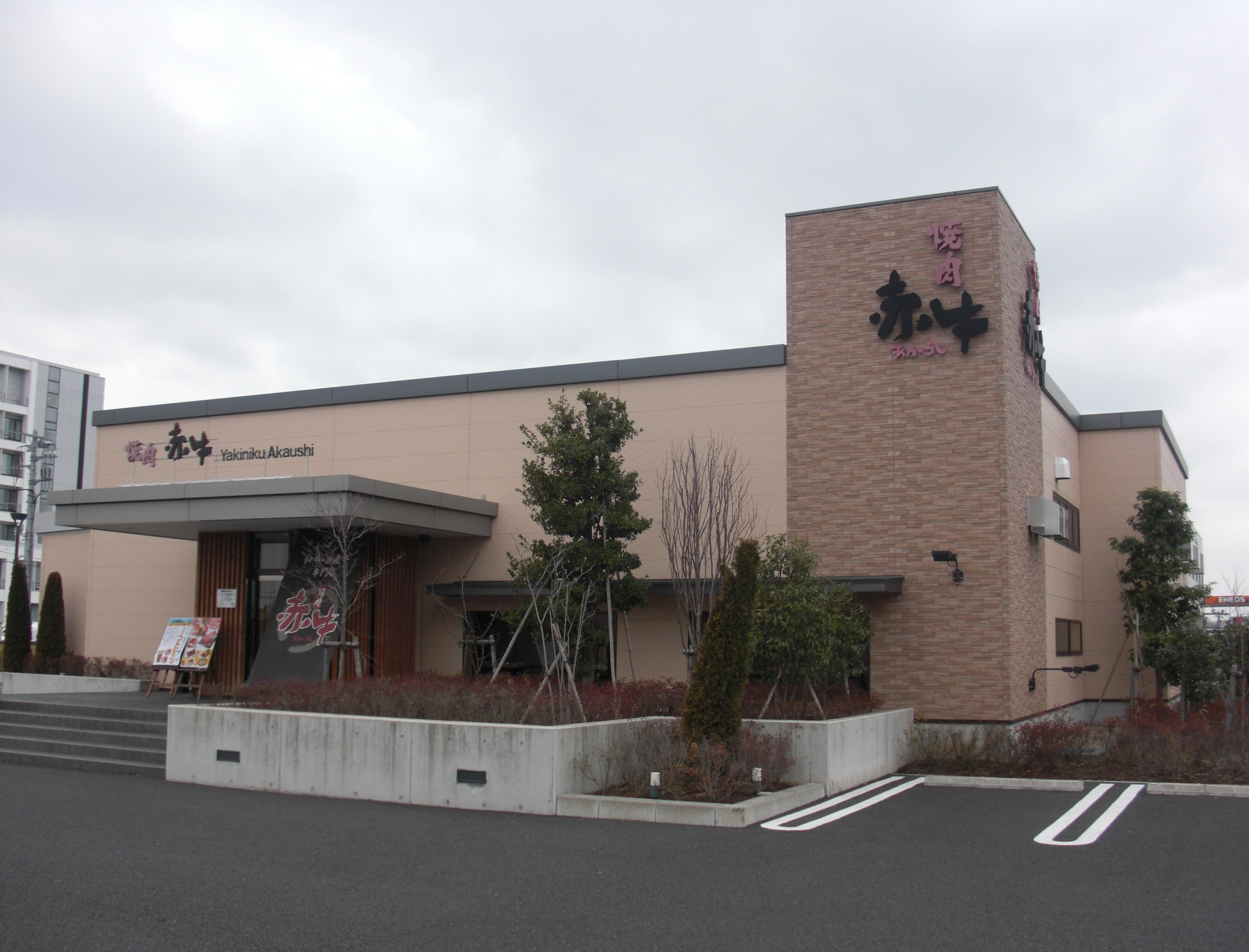 This is the main shop of the Yakiniku Akaushi in Tsukuba, Ibaraki, Japan.